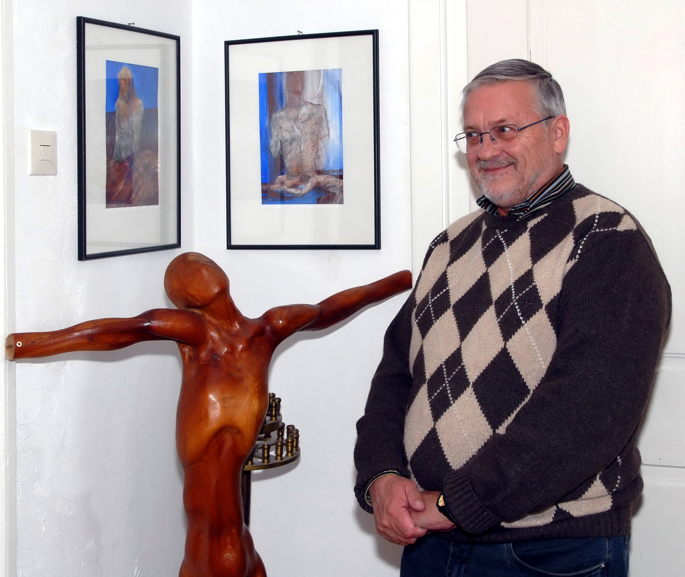 Heinz Möseneder, sculptor, at his art gallery in Gradenegg, market town Liebenfels, district Sankt Veit, Carinthia, Austria, EU